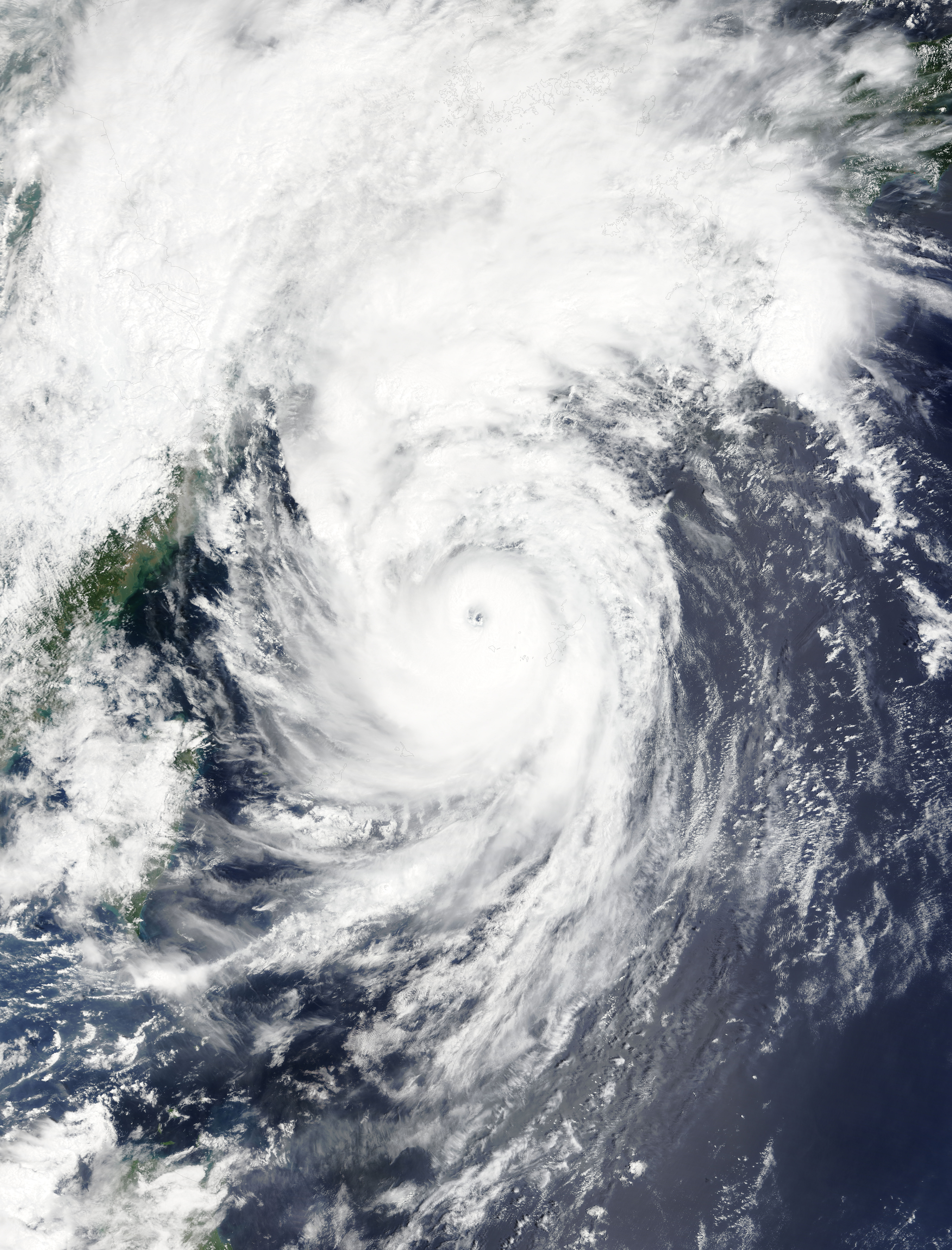 Typhoon Goni (16W) in the East China Sea